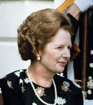 Margaret Thatcher, 1983